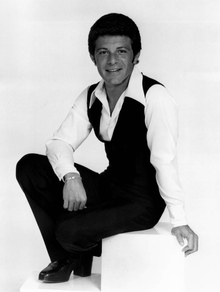 Photo of Frankie Avalon from a 1976 television special Easy Does It.